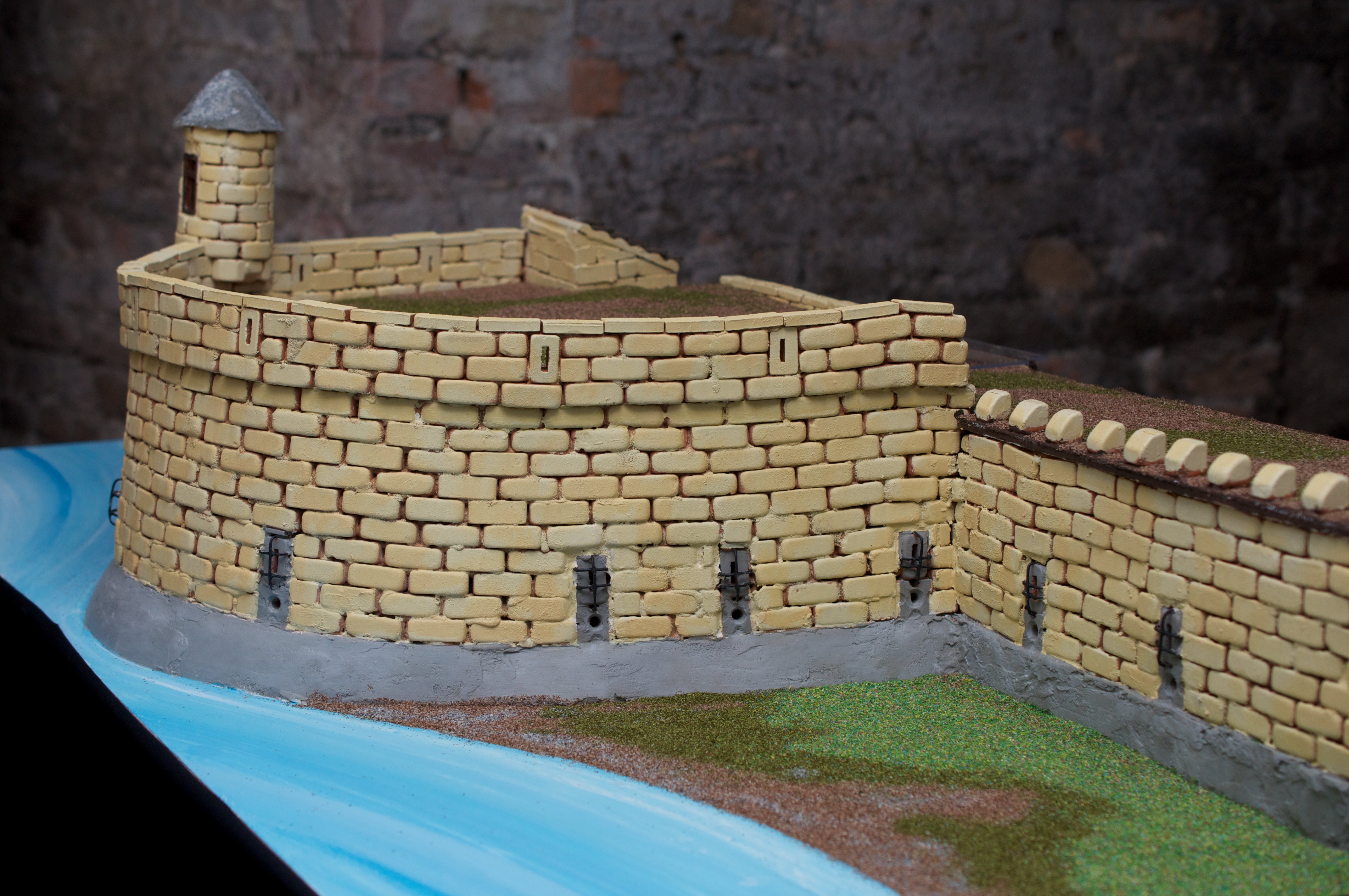 Model of De Stratemakerstoren, as it was in the 16th century. Built by Bert Eggelaar. Photographed by Nico van Hoorn